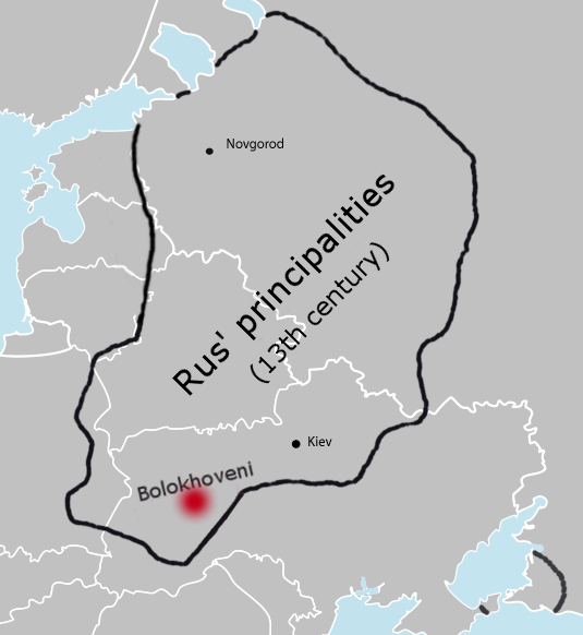 Region of the Bolokhoveni, according to Dimnik; (Dimnik, Martin (1981). Mikhail, Prince of Chernigov and Grand Prince of Kiev, 1224-1246. Pontifical Institute of Mediaeval Studies. ISBN 0-88844-052-9.)